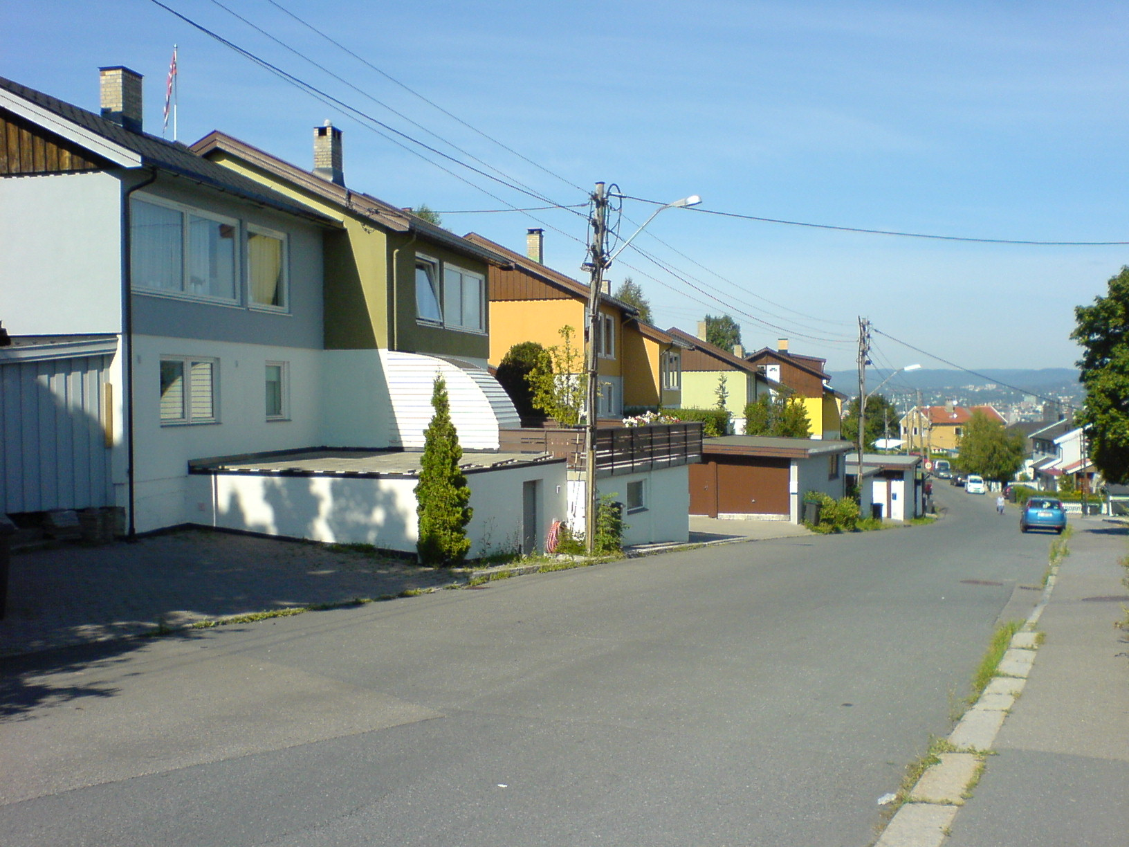 Shows a smal piece of the street Brannfjellveien located in Norway in the Capital Oslo (Nordstrand/Ekeberg).